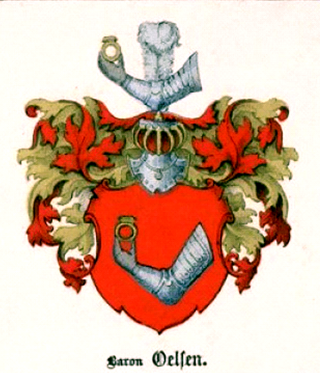 Coat of Arms of baron Oelsen family